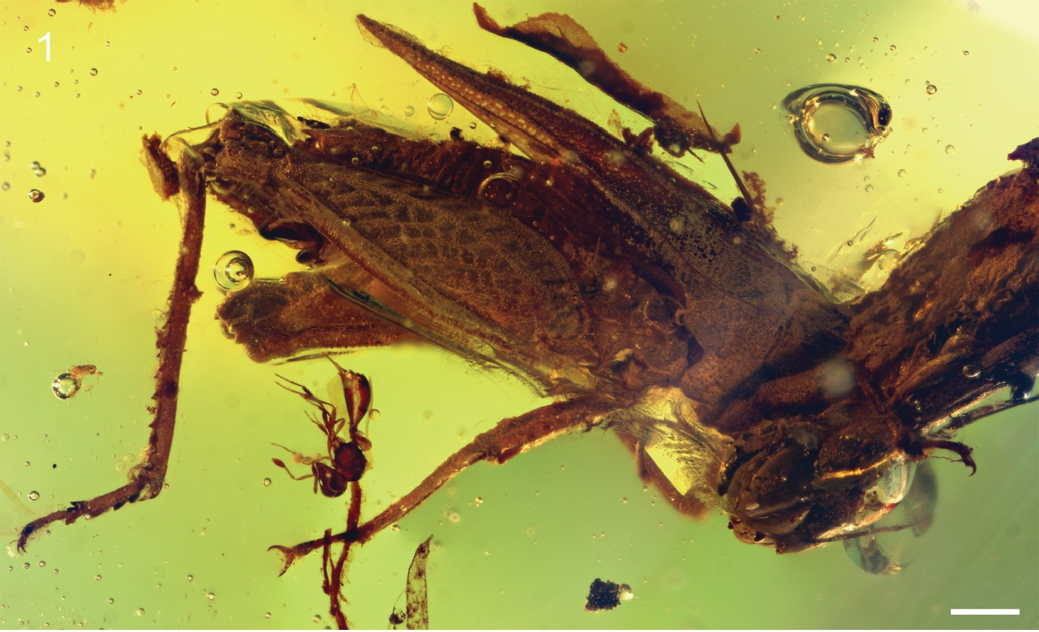 Adult female Electrotettix attenboroughi preserved in amber.